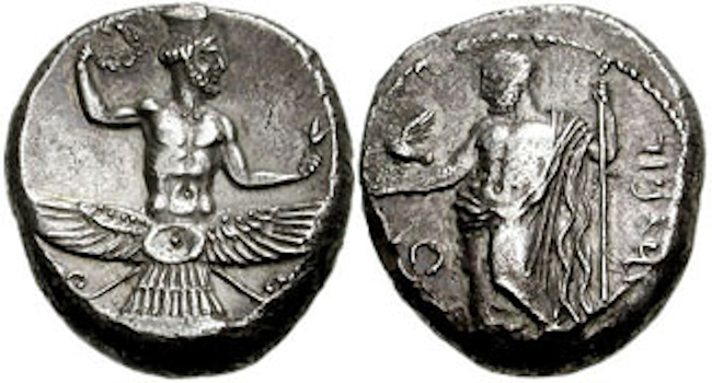 CILICIA, Soloi. Tiribazos, Satrap of Lydia. Second reign, 388-380 BC.